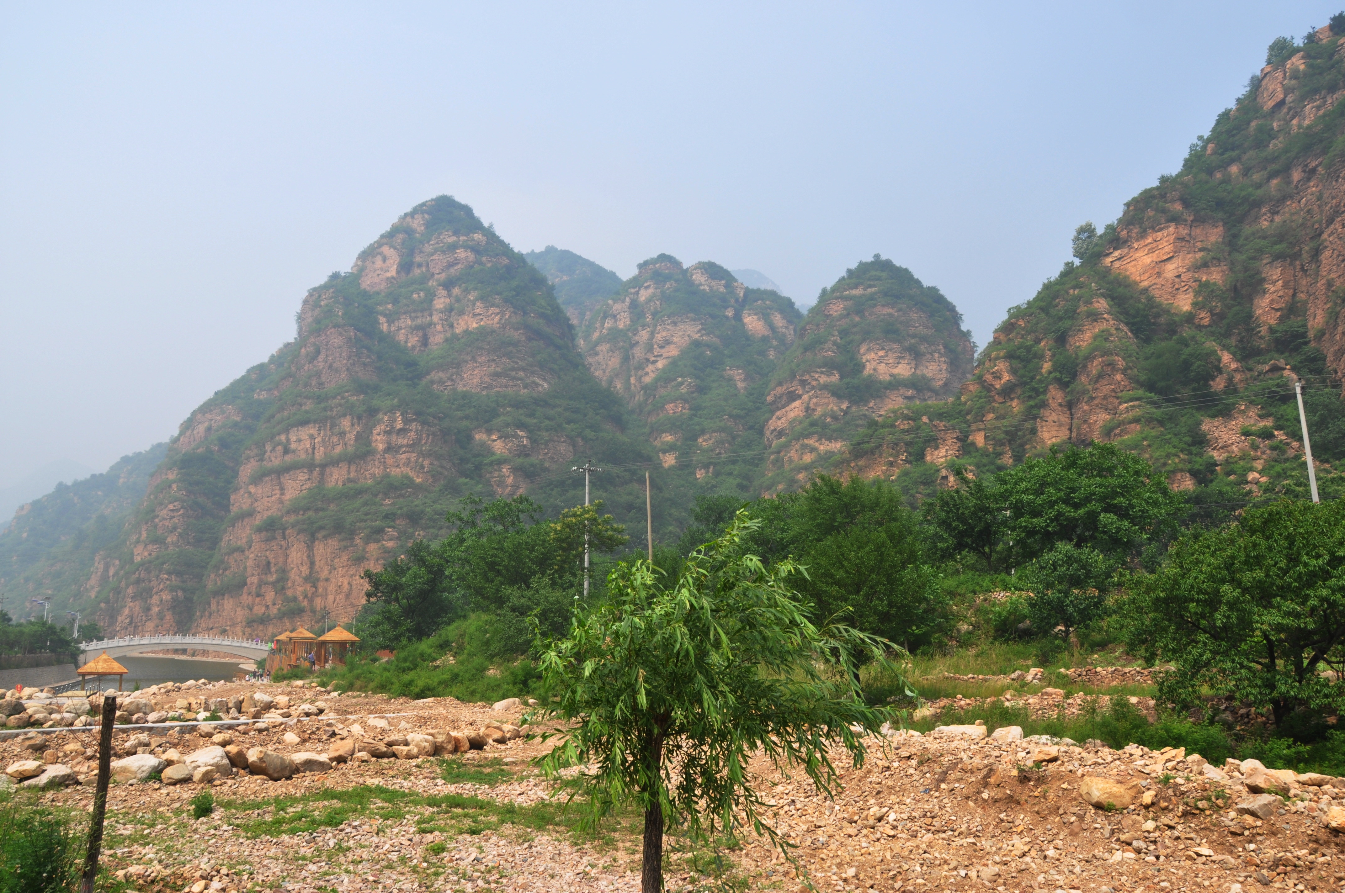 Scenery near Bolitai Village 玻璃台附近